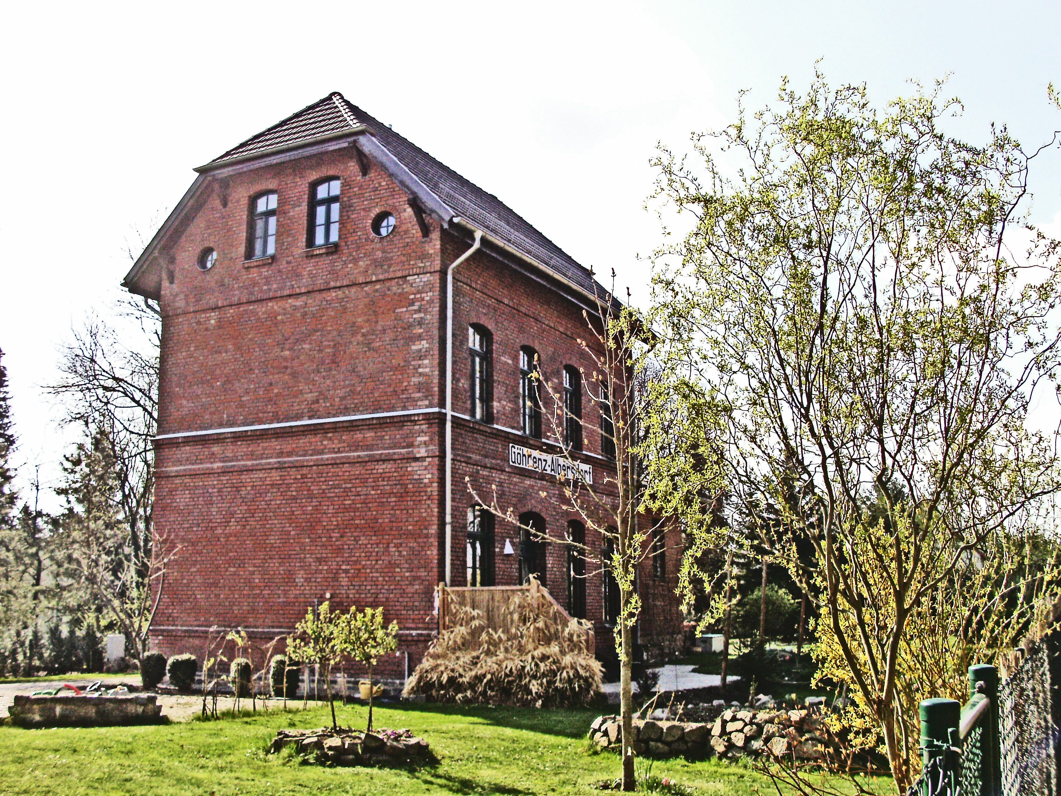 Göhrenz-Albersdorf station at the former Pörsten-Leipzig Plagwitz railway line (Markranstädt, Leipzig district, Saxony)